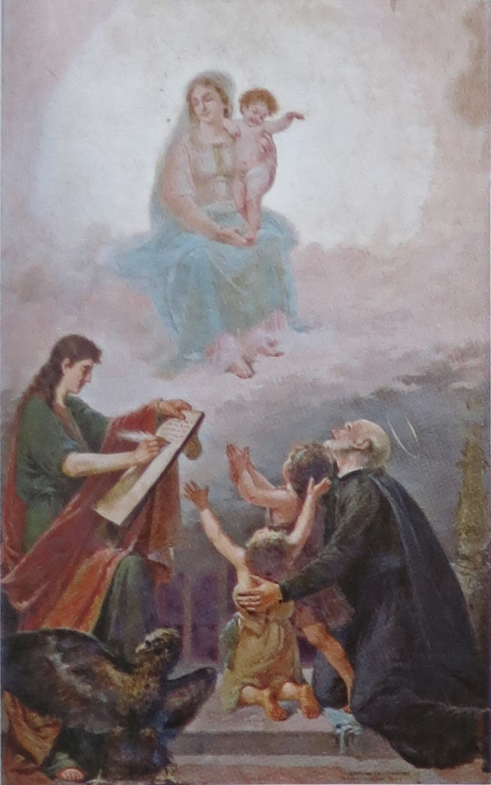 Antonino Calcagnadoro - L'apparizione della Vergine a San Giovanni Evangelista e a San Giuseppe Calasanzio (1903), oil on canvas, preserved at Santa Scolastica church in Rieti (Italy)